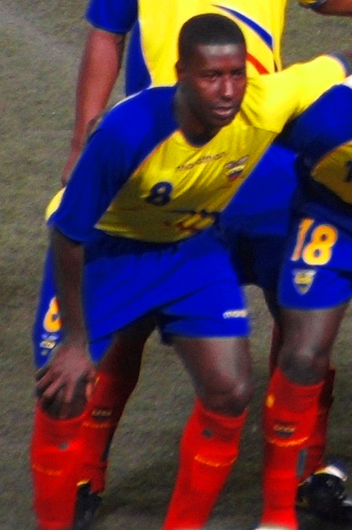 Edison Mendez pose pour une photo d'équipe au Giants Stadium pour un match amical international entre l'Ecuador et la Colombie.